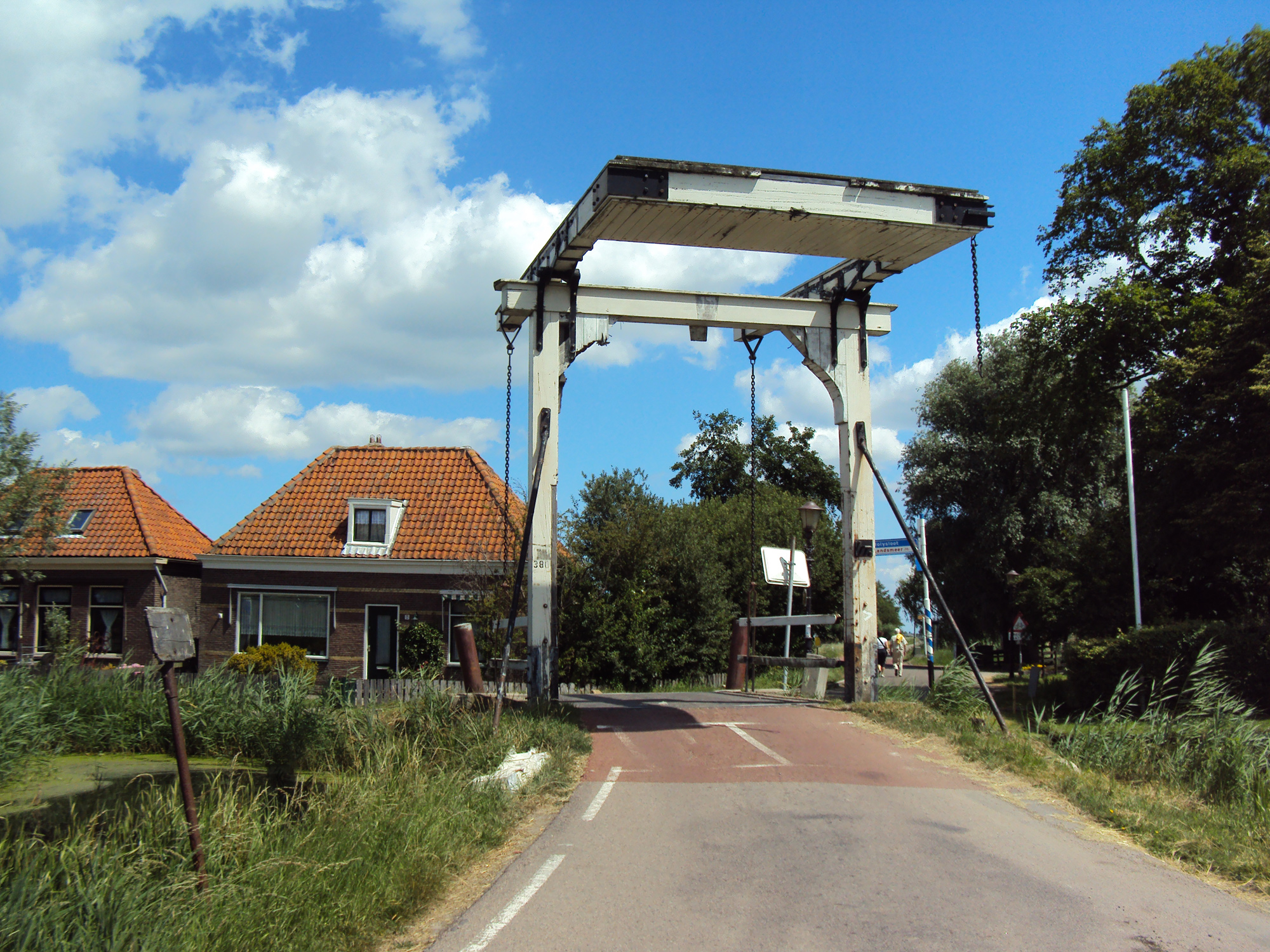 Bridge 380 ("Gerrit Werfbrug") in Ransdorp, Amsterdam, the Netherlands.